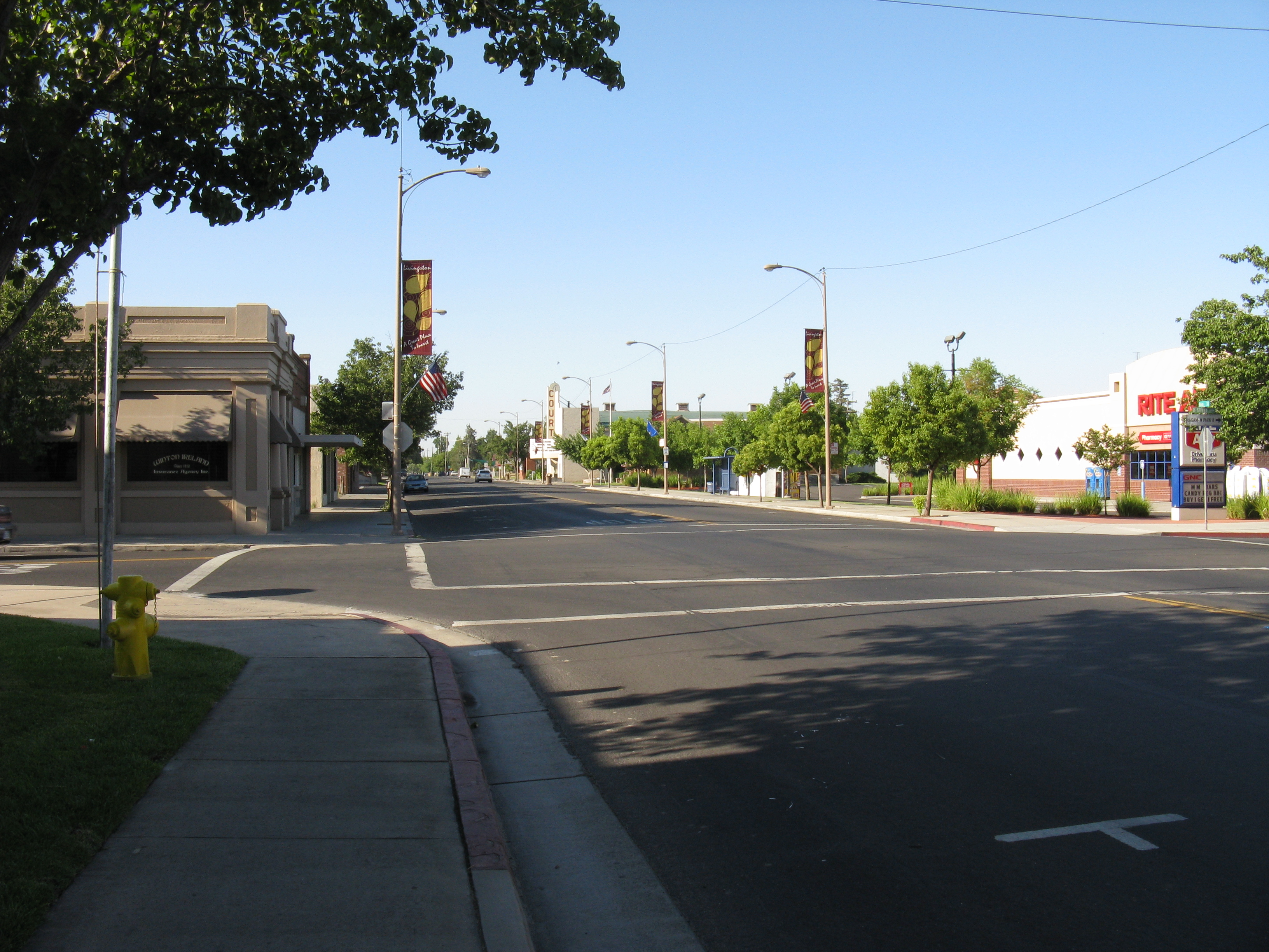 Looking south down the main Street in Livingston, California.